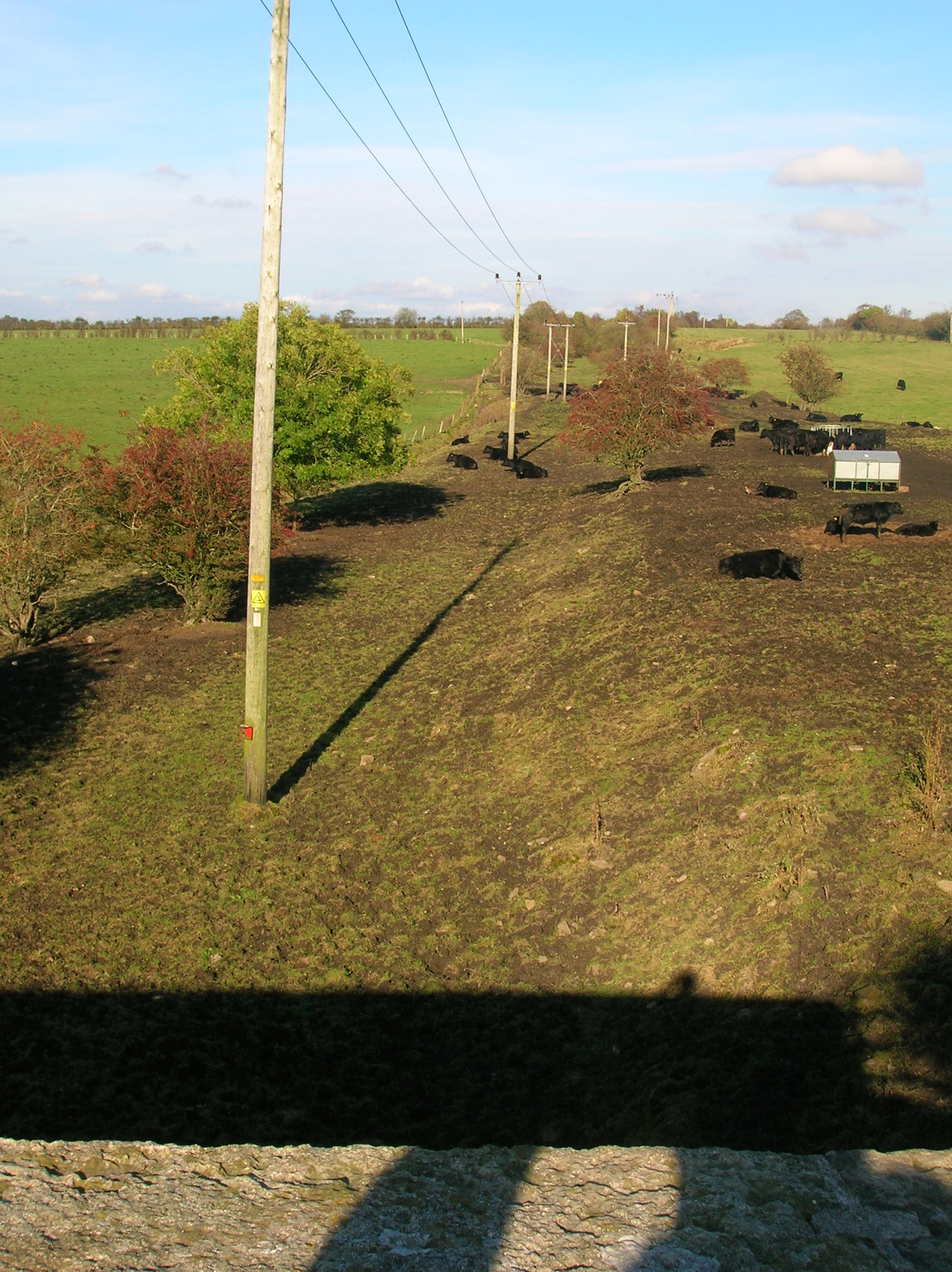 The site of the railway and goods station at South Lissens, North Ayrshire, Scotland. October 2007. Roger Griffith.